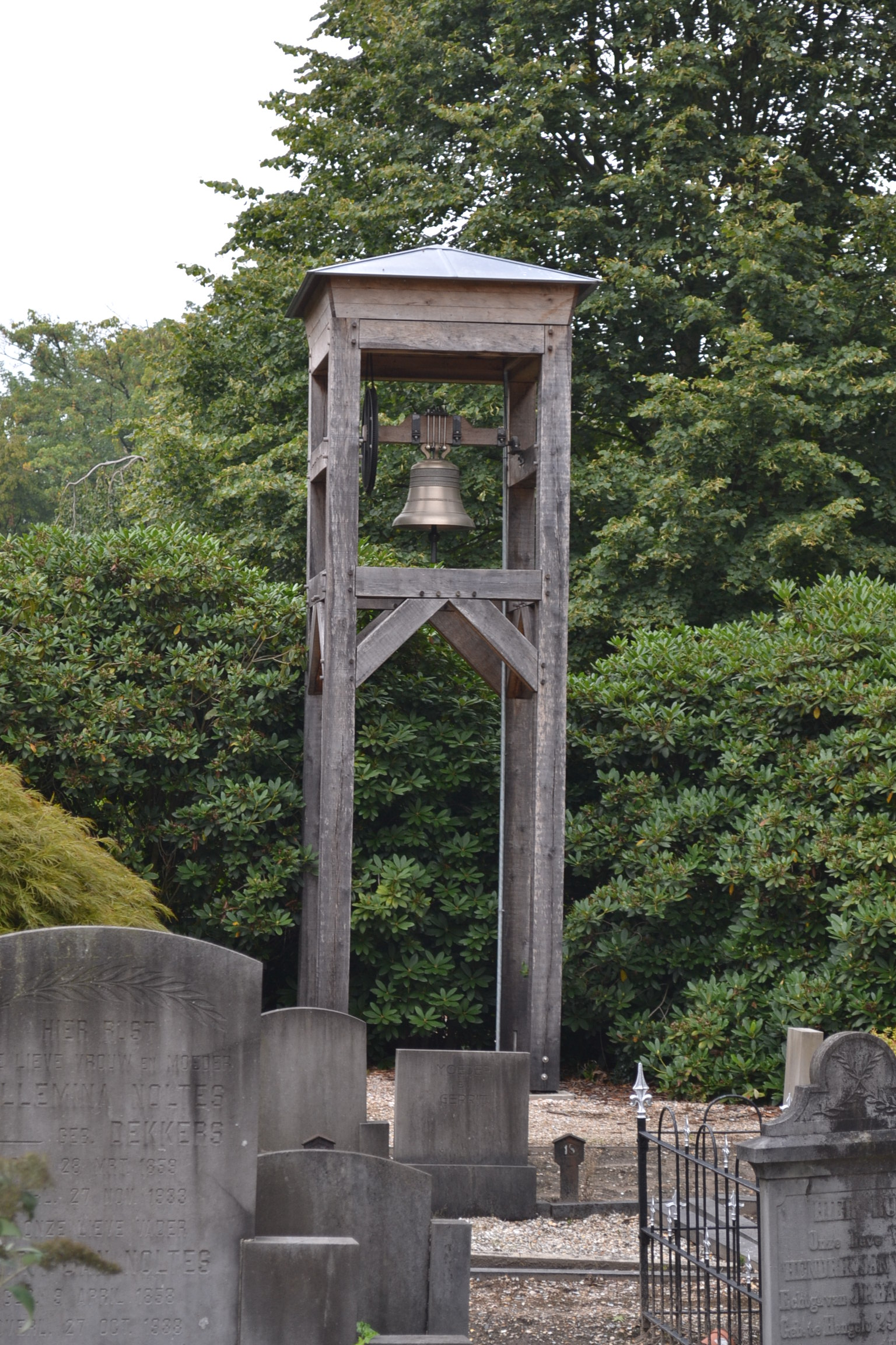 Begraaf- en gedenkpark Oldenzaalsestraat (Hengelo, OV)